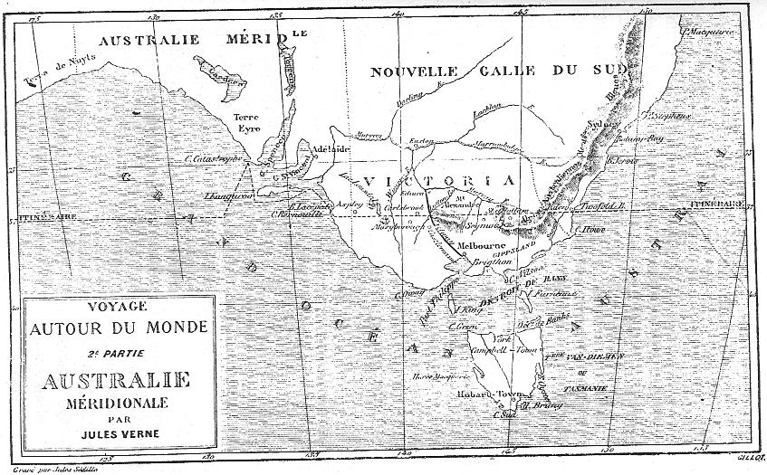 An ilustration from the novel "In Search of the Castaways; or Captain Grant's Children" by Jules Verne drawn by Édouard Riou.